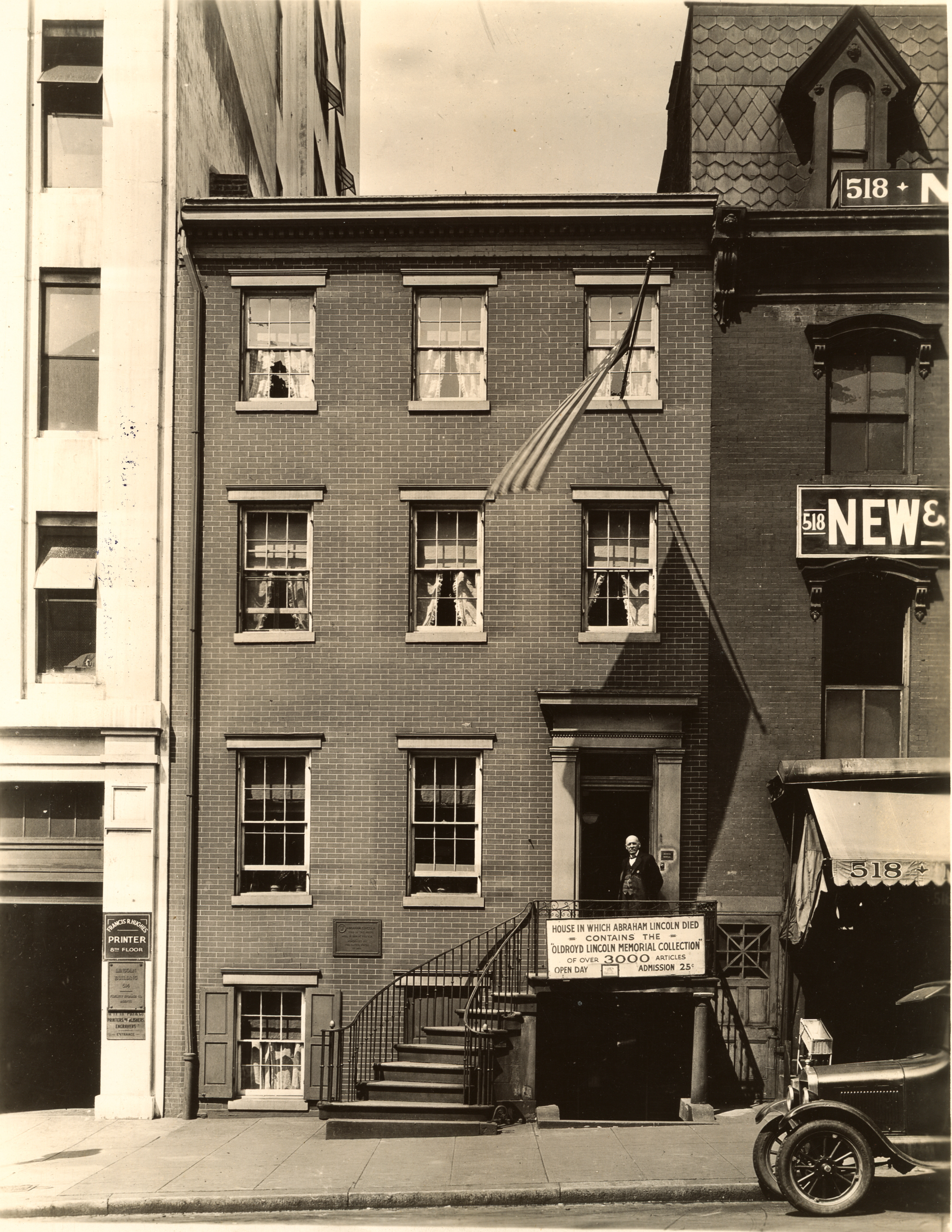 Osborn Oldroyd on the steps of the Petersen House, then housing his Lincoln Museum, 1925.